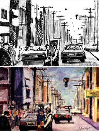 Photograph of a painting with the consent of the author. Painted in 1993.